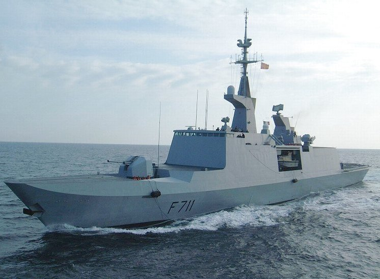 Frigate Surcouf at sea near Toulon